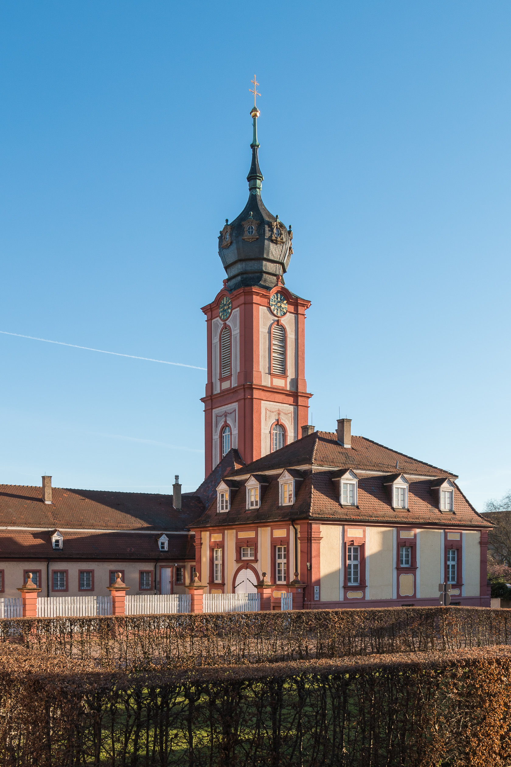 pharmacy and churchtower of the baroque palace of Bruchsal